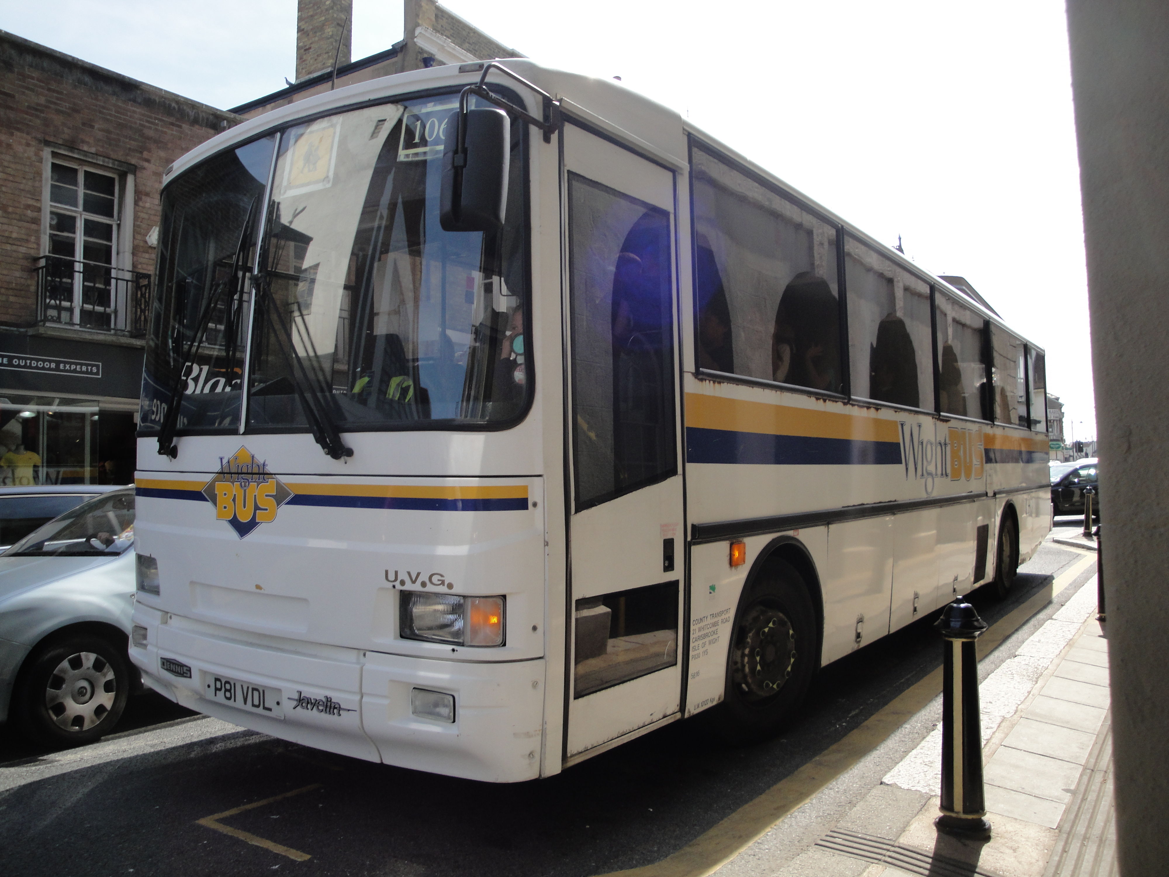 Wightbus 5816 (P81 VDL), a Dennis Javelin/UVG parked up in the High Street, Newport, Isle of Wight on school bus route 106.